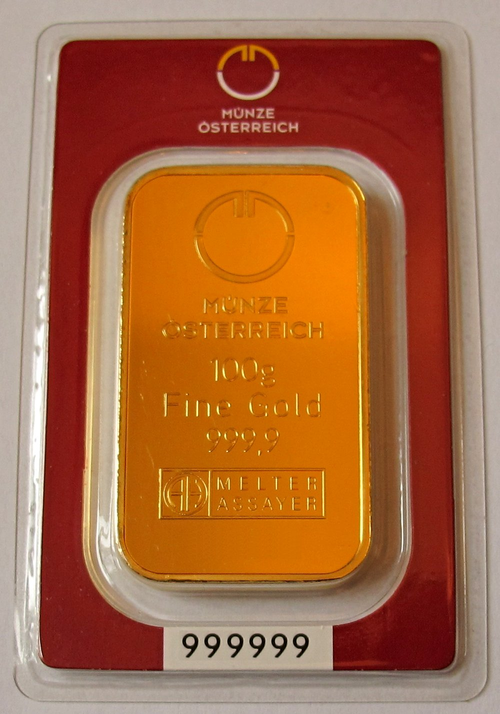 Gold Ingot from "Münze Österreich" with 100 Gram and purity of 99.99%